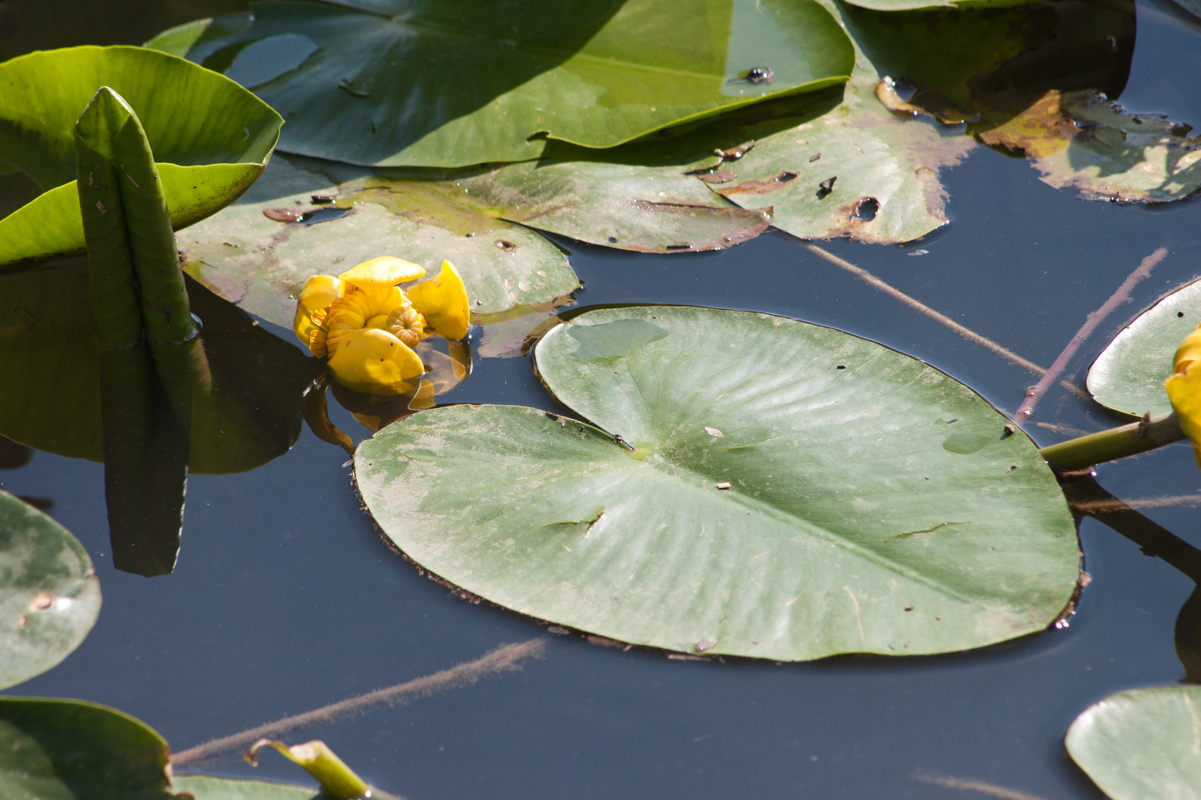 Nuphar lutea at Yarkon National Park, Israel